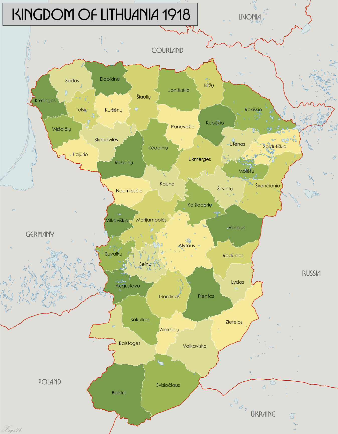 Administrative map of the Kingdom of Lithuania (1918) showing apskritis (counties). Source map data from and